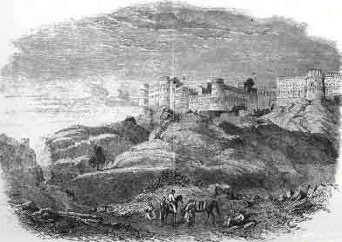 Attock Fort, 1849. from Sarhad Conservation Network - Picture Gallery - "A Walk Down Memory Lane"